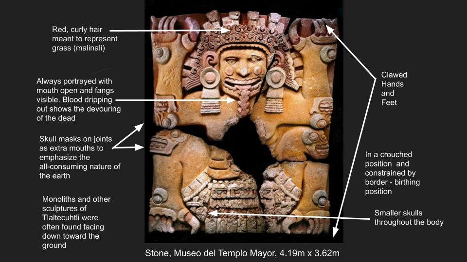 Annotated Image of the Monolith of Tlaltecuhtli